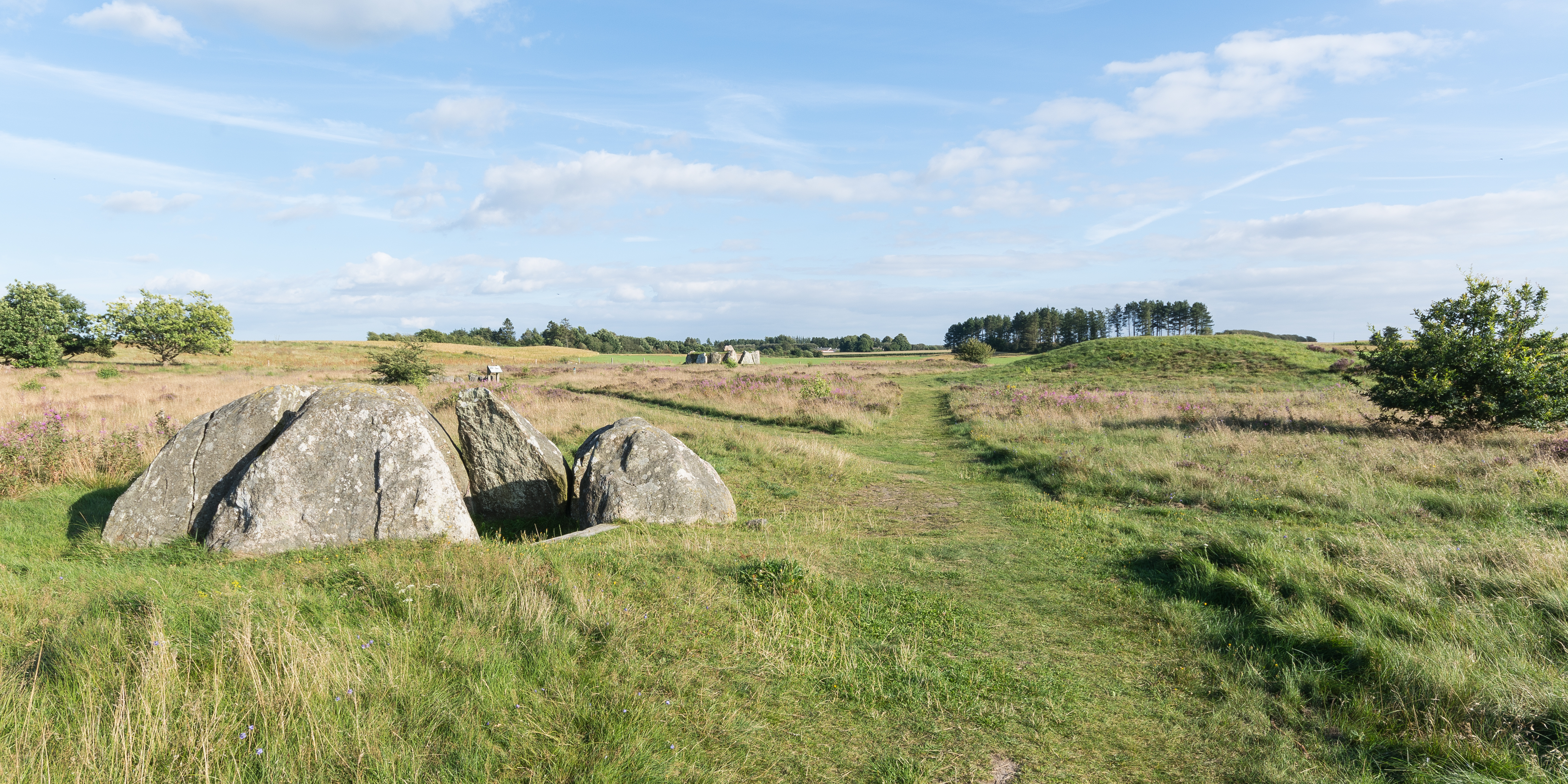 Tustrup Burial Ground in Norddjurs Kommune.